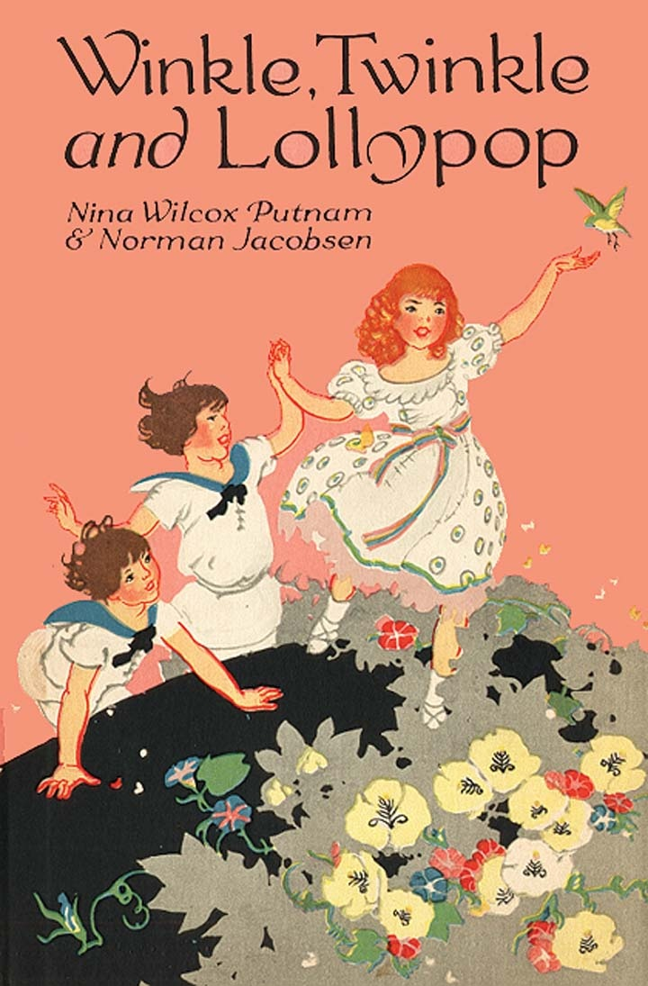 Winkle, Twinkle and Lollypop from 1918 bu Nina Wilcox Putnam and Norman Jacobsen illustrated by Katherine Sturges